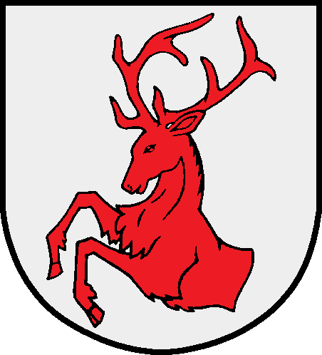 Coat of arms of the municipality Heist in Schleswig-Holstein, Germany.